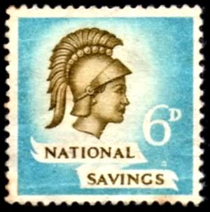 A 1951 6 pence savings stamp.